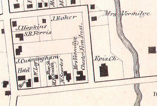 Closeup of an 1867 Beers map of North Castle showing the hamlet of Armonk and the future Bedford Road Historic District as they were at the time.